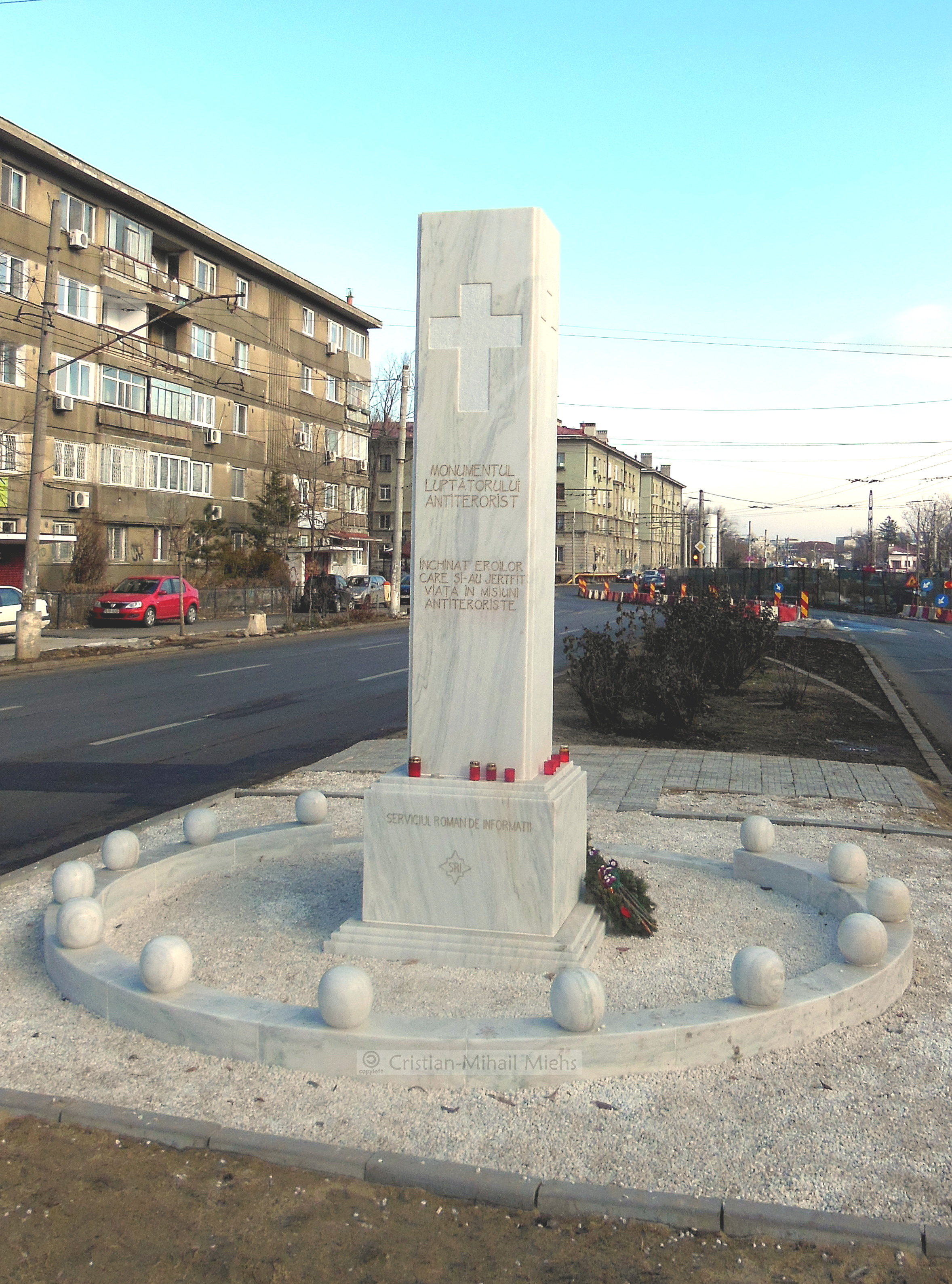 The Monument of the Antiterrorist fighter – Bucharest – erected in December 2012 to commemorate the Antiterrorist fighters fallen the day of December 24, 1989, during the Romanian Revolution